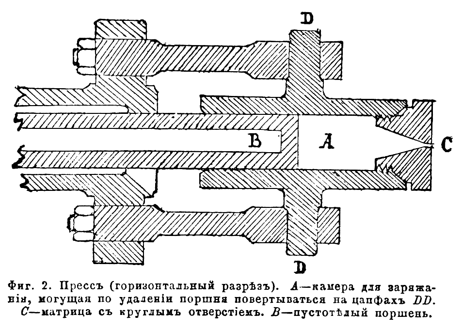 Illustration from Brockhaus and Efron Encyclopedic Dictionary (1890—1907)